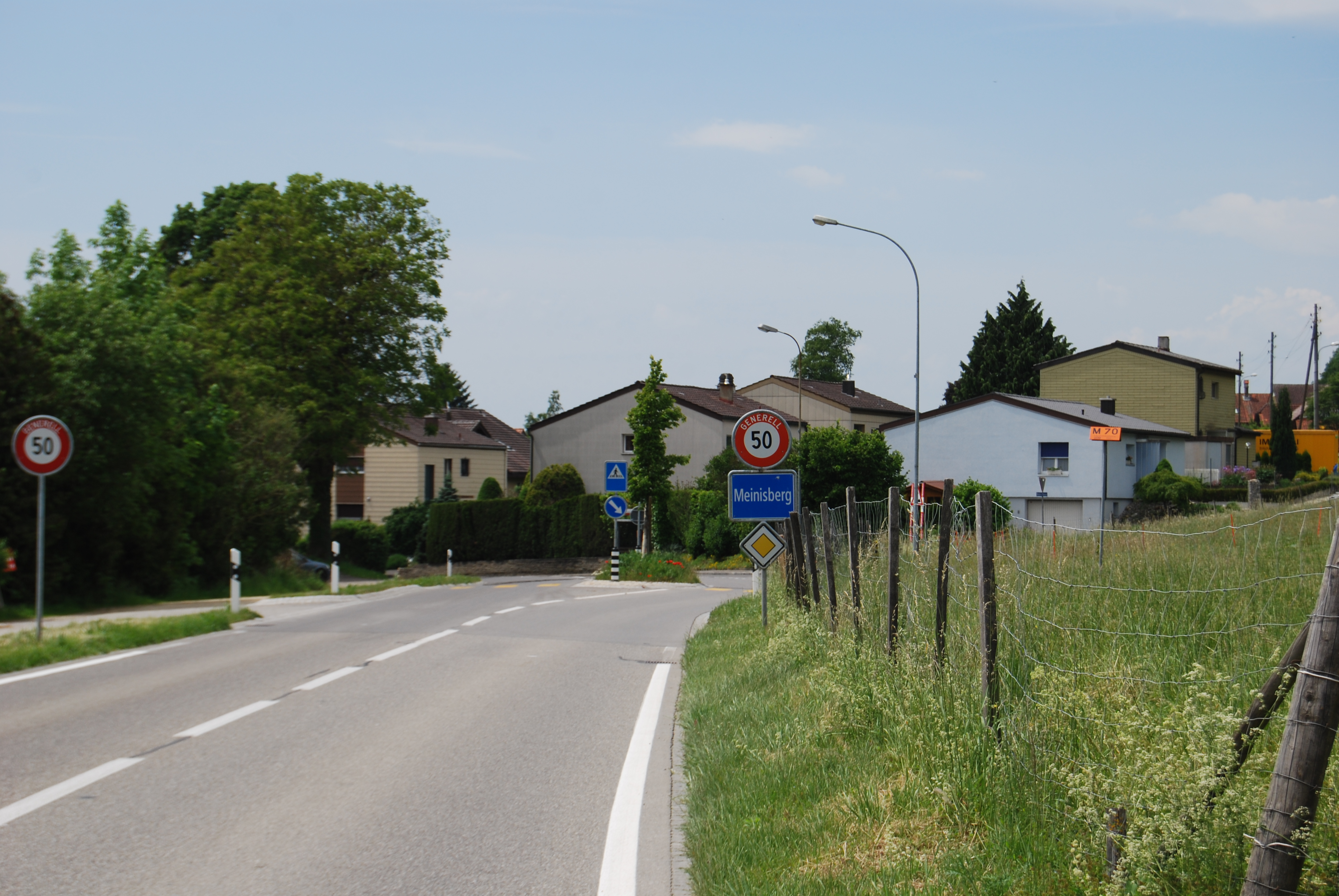 Meinisberg, canton of Bern, SwitzerlandEsperanto: Meinisberg, Kantono Berno, Svislando